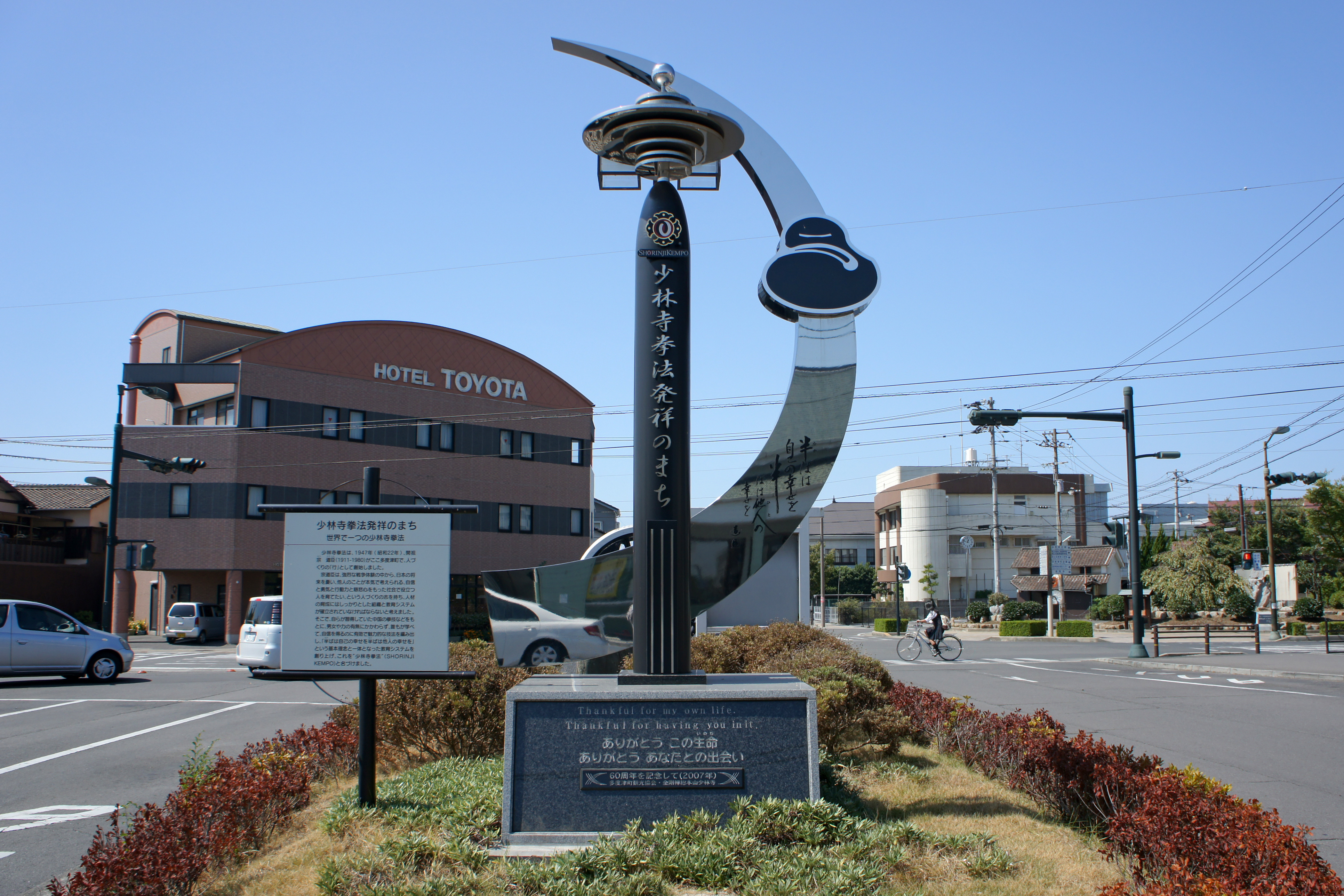 In front of Tadotsu Station, Tadotsu, Kagawa prefecture, Japan